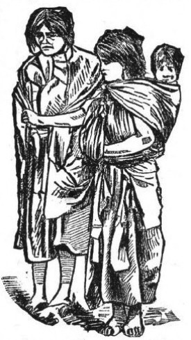 It is not a clean, inviting crowd, with blue eyes and [Page 19] sunny hair I would take you among, but a short, heavy-set people, with almost black skins, topped off with the blackest eyes and masses of raven hair. Their lives are as dark as their skins and hair, and are invaded by no hope that through effort their lives may amount to something. Nine women out of ten in Mexico have babies. When at a very tender age, so young as five days, the babies are completely hidden in the folds of the rebozo and strung to the mother's back, in close proximity to the mammoth baskets of vegetables on her head and supended on either side of the human freight. When the babies get older their heads and feet appear, and soon they give their place to another or share their quarters, as it is no unusual sight to see a woman carry three babies at one time in her rebozo. They are always good. Their little coal-black eyes gaze out on what is to be their world, in solemn wonder. No baby smiles or babyish tears are ever seen on their faces. At the earliest date they are old, and appear to view life just as it is to them in all its blackness.